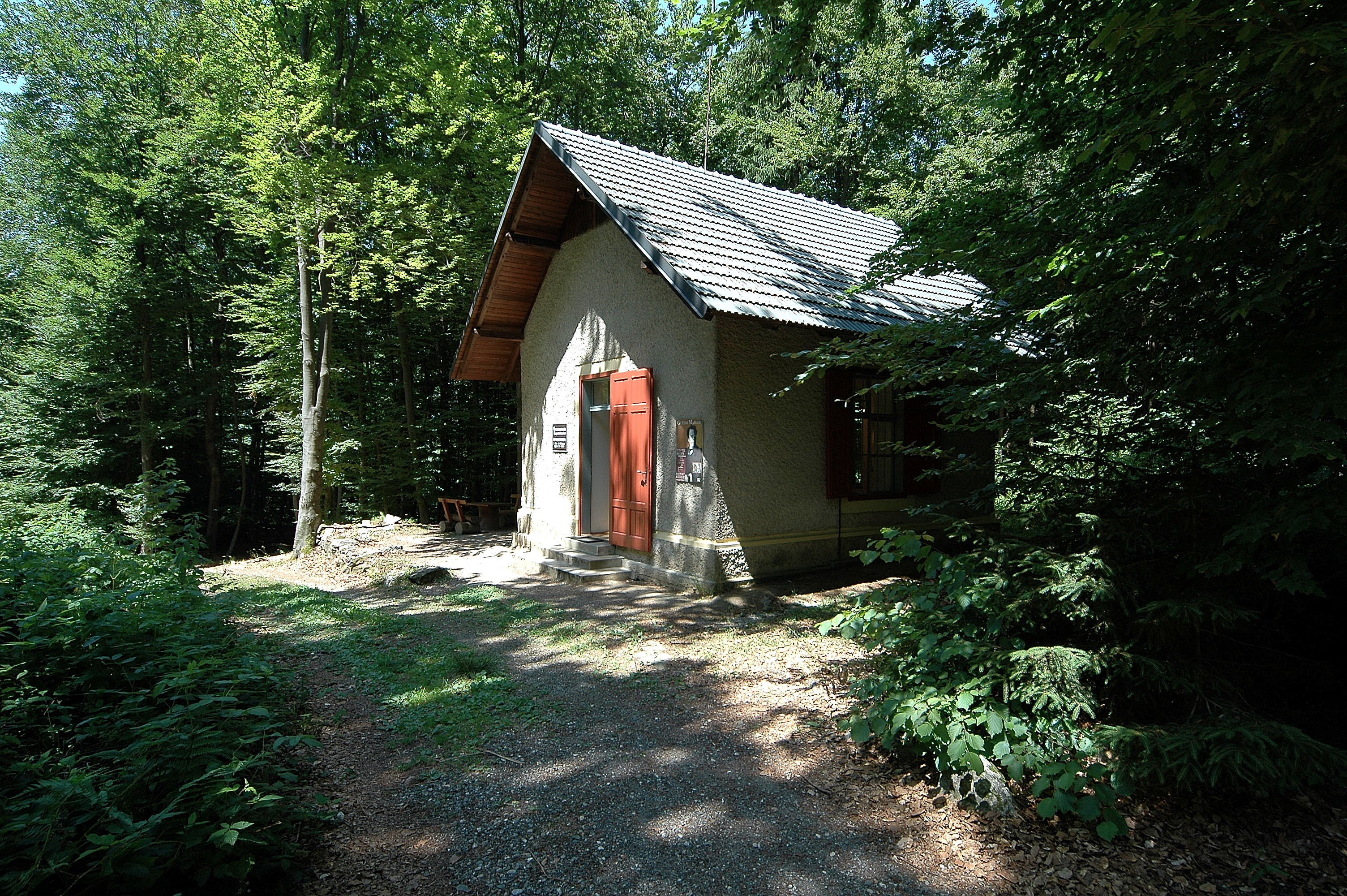 Mahler`s composer cabin in Sekirn, municipality Maria Wörth, district Klagenfurt Land, Carinthia, Austria, EU